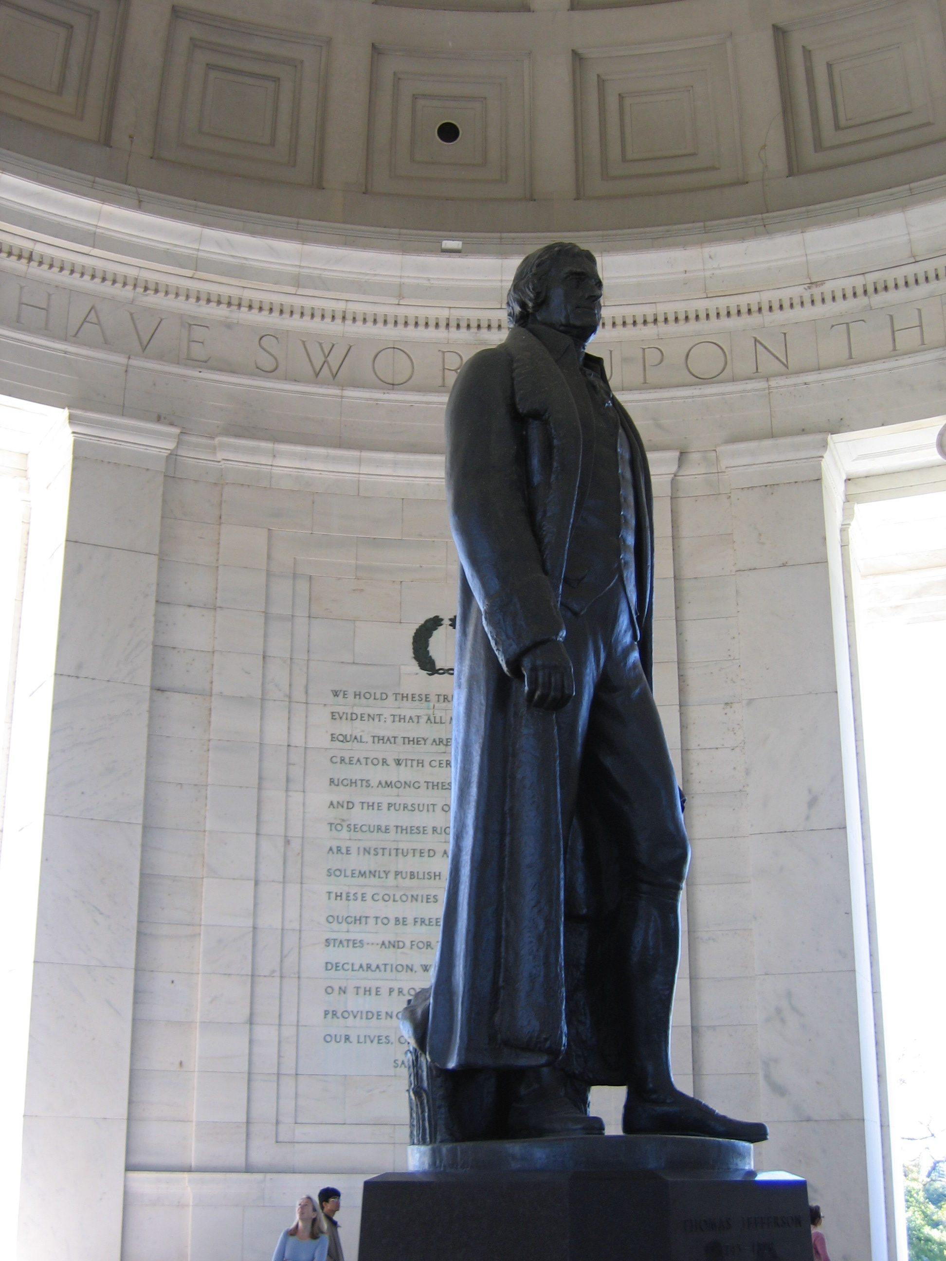 The Jefferson Statue at the Jefferson Memorial. Self work.